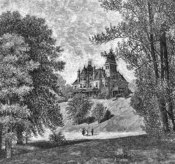 Engraving of Glenview Mansion, Yonkers, NY, USA, ca. 1886